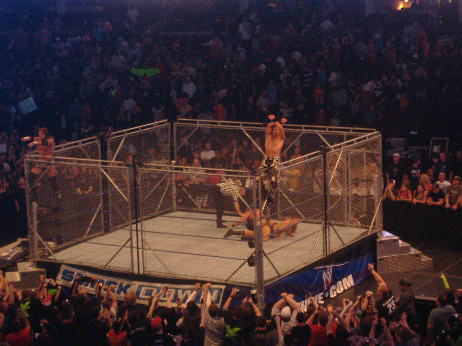 DX vs Legacy in a Steel Cage From September 1, 2009 Smackdown, ECW, and Superstars